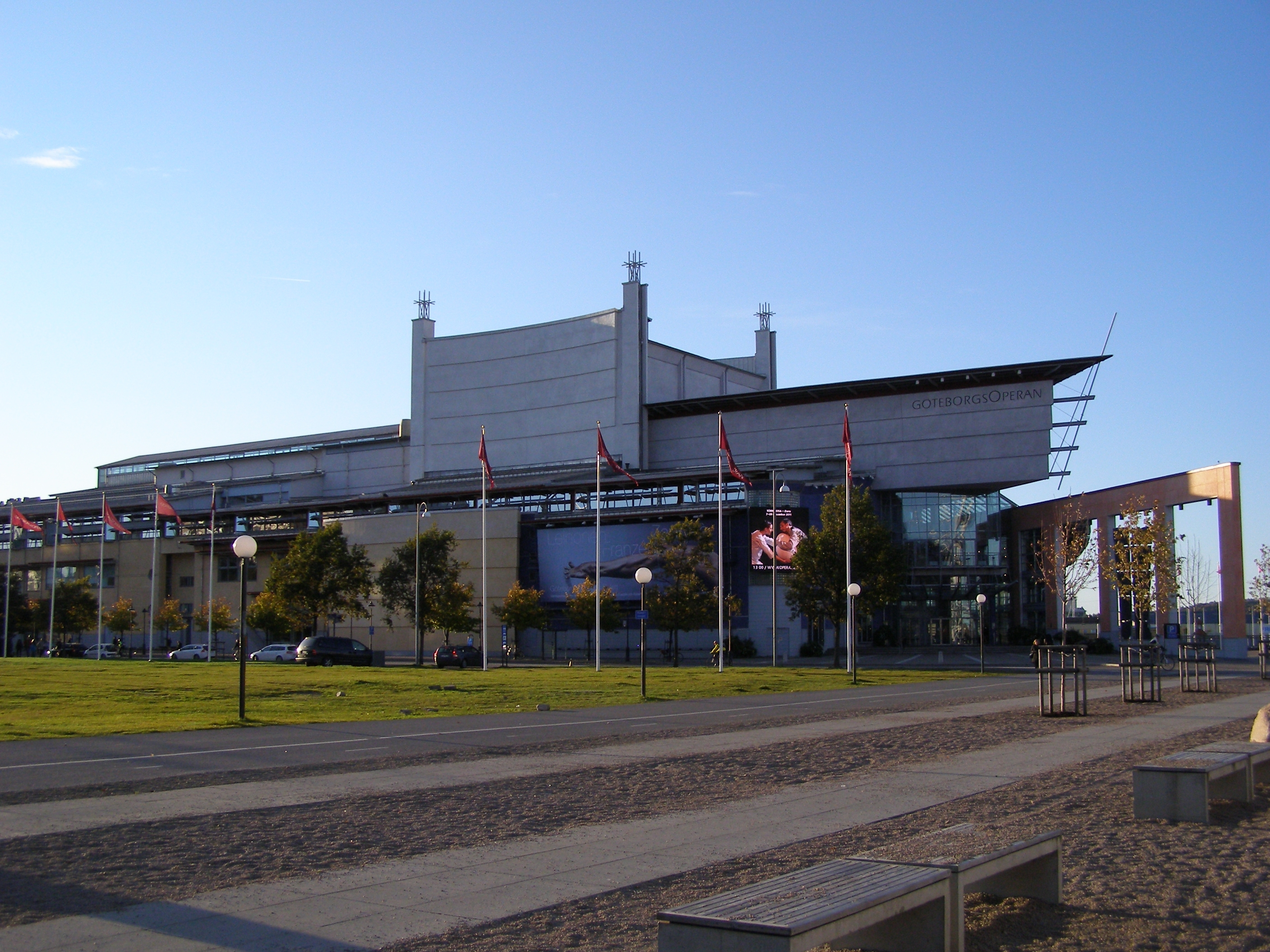 Gothenburg - opera house